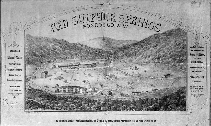 Handbill for Red Sulphur Springs, West Virginia, USA from the Library of Congress